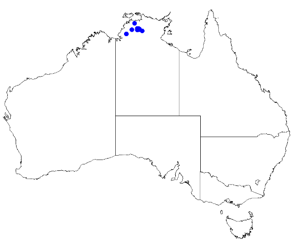 Boronia decumbens occurrence data downloaded from Australasian Virtual Herbarium 10 April 2019 using This download included all the environmental overlay fields and ALA's data checking fields (over 600 fields) including "cultivated / escapee", "outside expert range for species", "latitude is negated", "coordinates are transposed", "taxon misidentified", "habitat incorrect for species", and "suspected outlier". Deleting occurrences for which any of the above were true, 46 specimens with coordinates were deleted. However this did not remove all obvious spatial outliers which were later removed by hand...